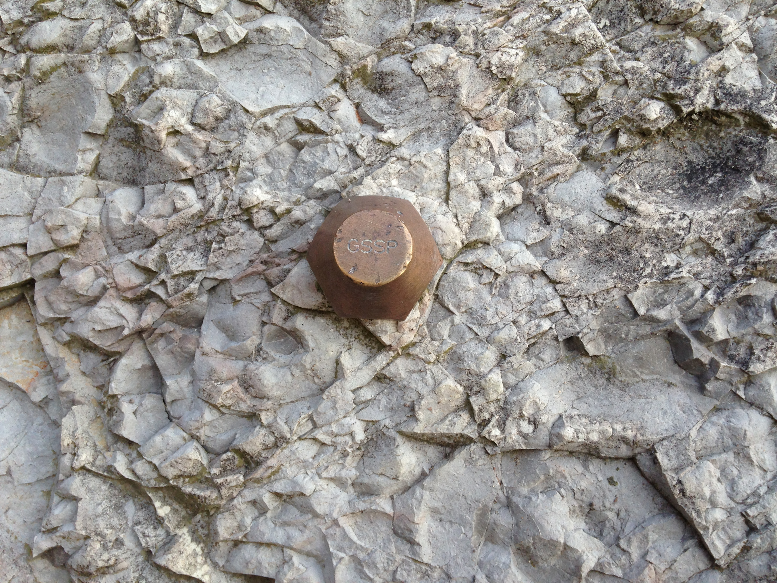 “Golden spike” at the GSSP of the Selandian stage (lower Upper Paleocene) at Zumaia section, Spanish Basque Country. The spike sits on the top plane of the uppermost limestone bed of the Aitzgorri Limestone Formation which is identical to the basal plane of the overlying red marls of the lowest part of the Itzurun Formation (right-hand outside the picture).[1]